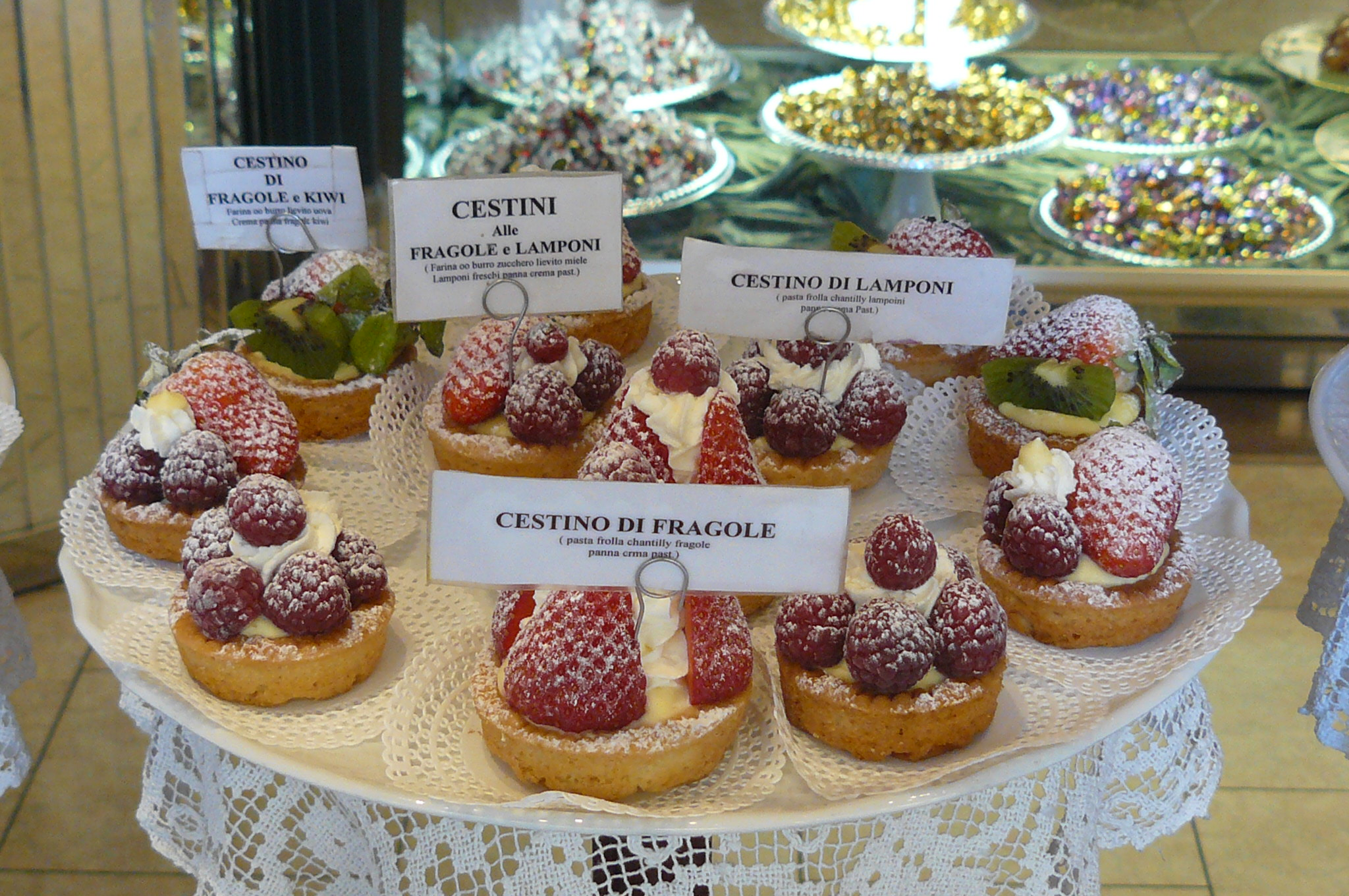 Strawberries, raspberries, kiwi. Shop in Pavia.